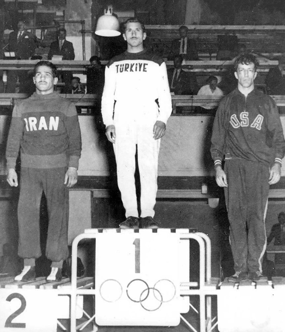 Freestyle Wrestling at the 1952 Summer Olympics 62 kg podium